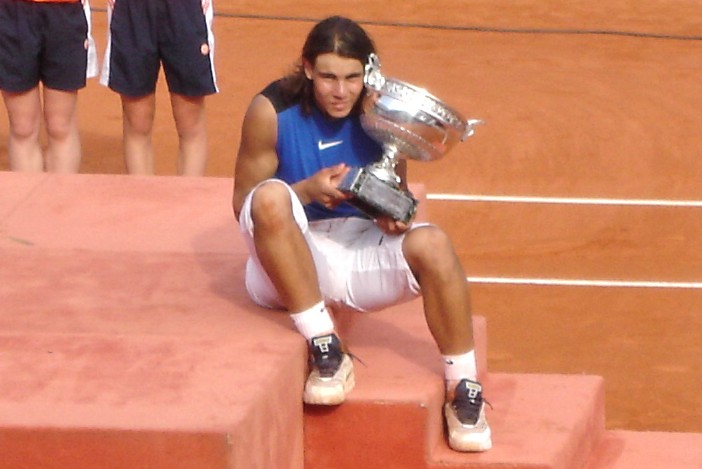 Rafael Nadal holds the Coupe des Mousquetaires after winning the 2006 French Open final over Roger Federer